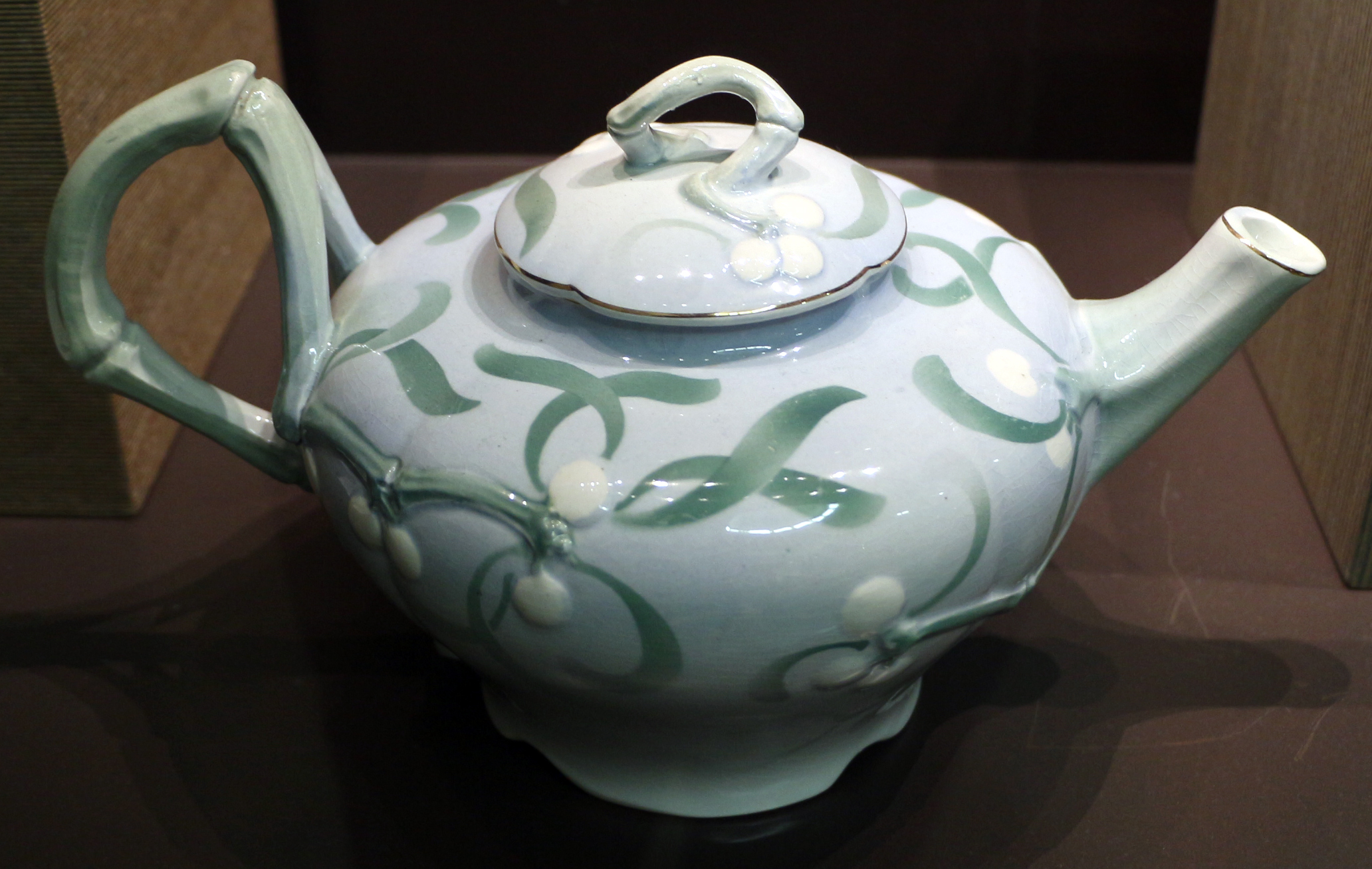 Decorative arts in the Musée d'Orsay